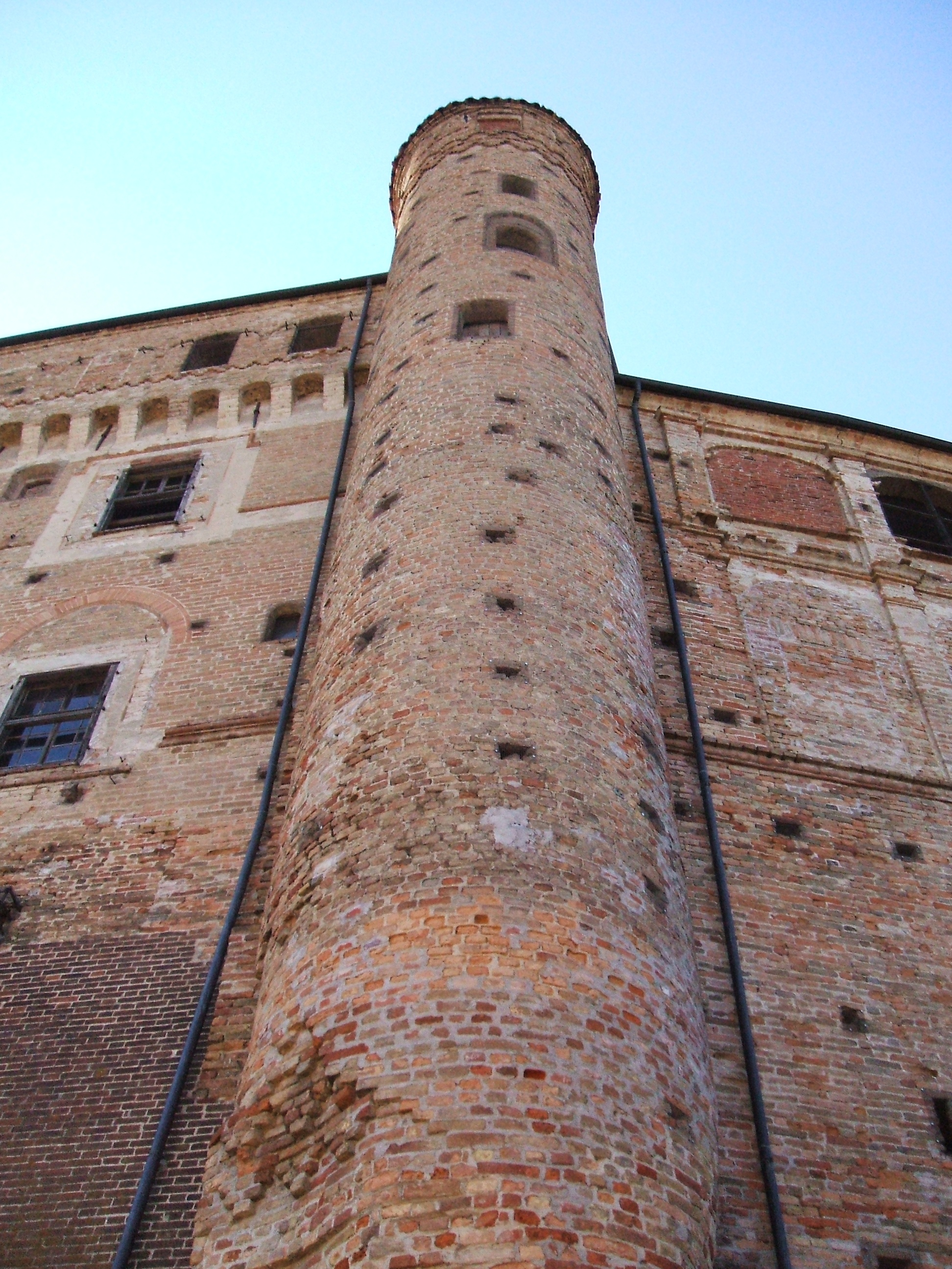 Roddi, Piedmont, Italy - the castle